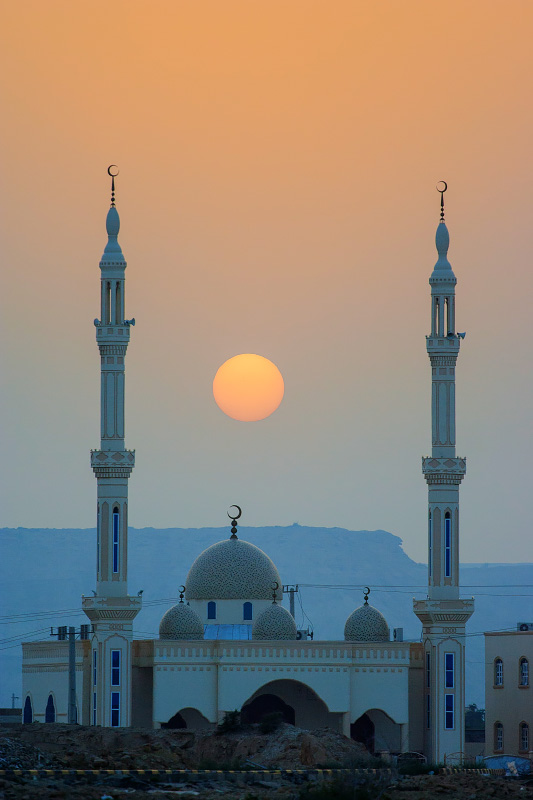 a beautiful mosque in qeshm Islnad, Iran